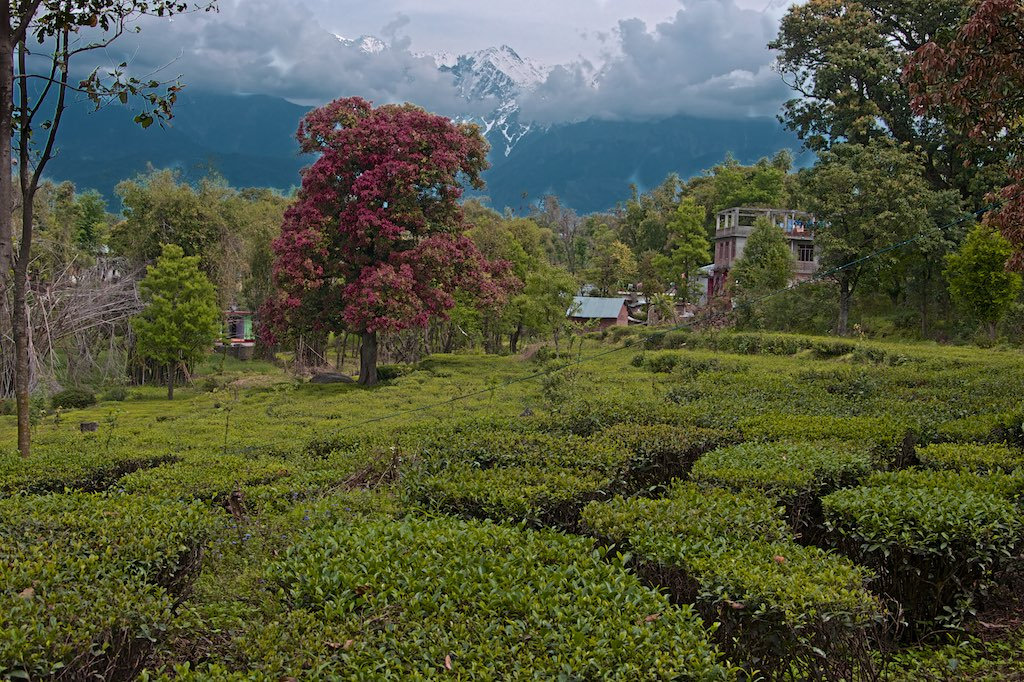 Tea plantation, snow capped Himalayas, Palampur Himachal Pradesh, India 2015